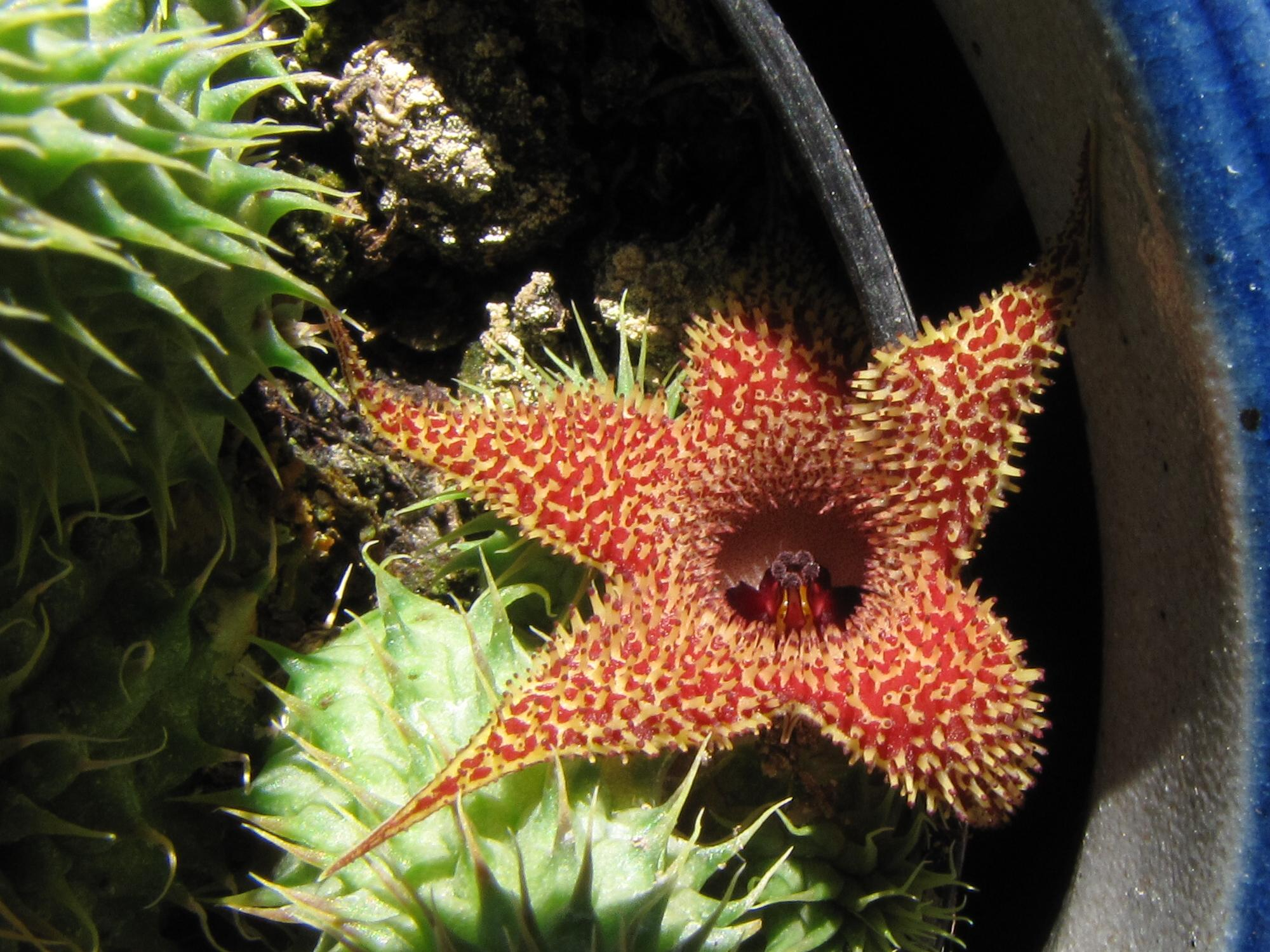 Huernia pillansii N. E. Br., Asclepiadoideae, Apocynaceae